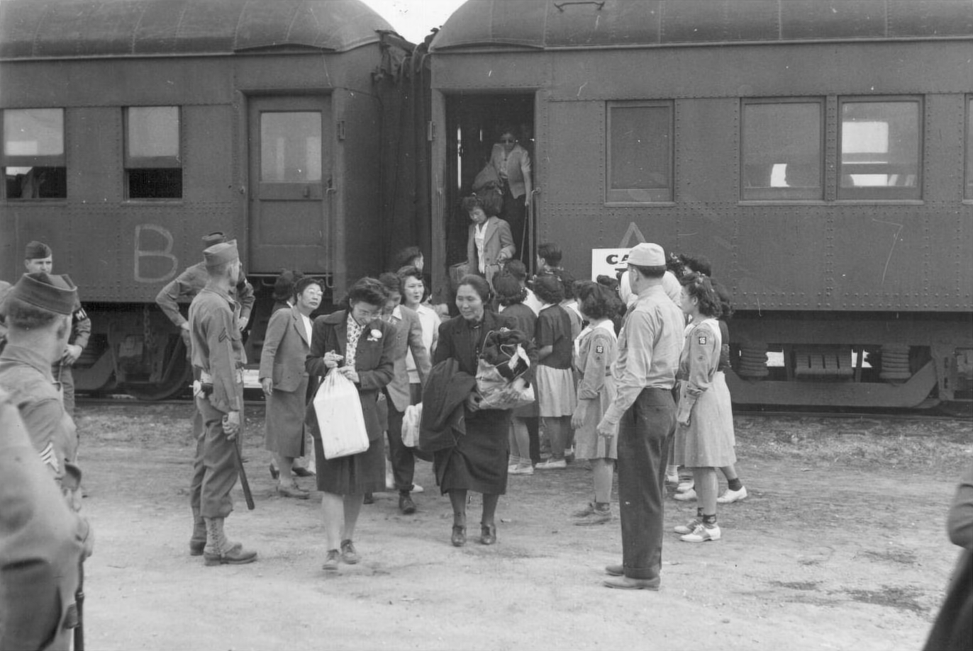 INCOMING--Arrivals leaving train assisted by Girl Scout with their baggage. -- Photographer: Aoyama, Bud -- Heart Mountain, Wyoming. 9/?/43